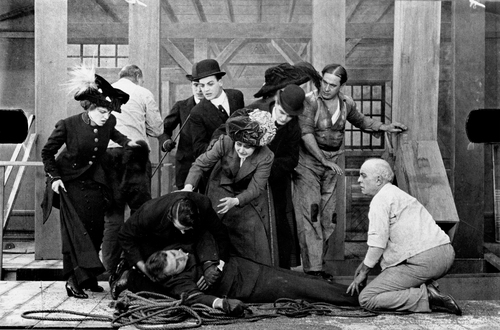 screenshot of A Corner in Wheat